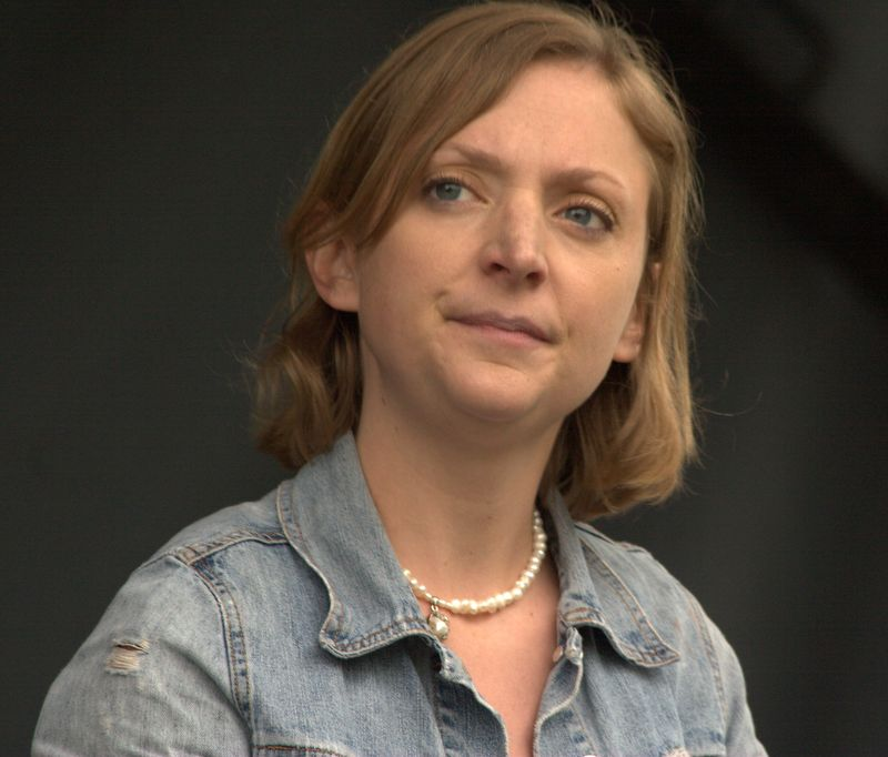 Eilen Jewell performing at MerleFest, April 2013, Wilkes County, North Carolina. Photo by Forrest L. Smith, III.